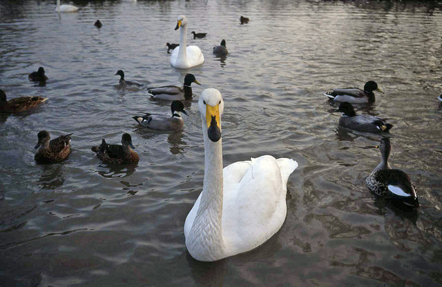 Whooper Swan A winter migrant to Slimbridge, although this one is a resident.